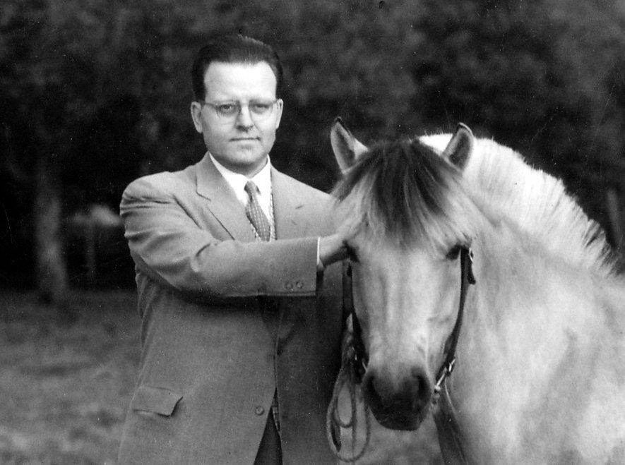 Gabriel Hauge with Fjordhest, fjord horse, Gloppen Norway 1955